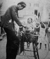 Yenish scissorsgrinder